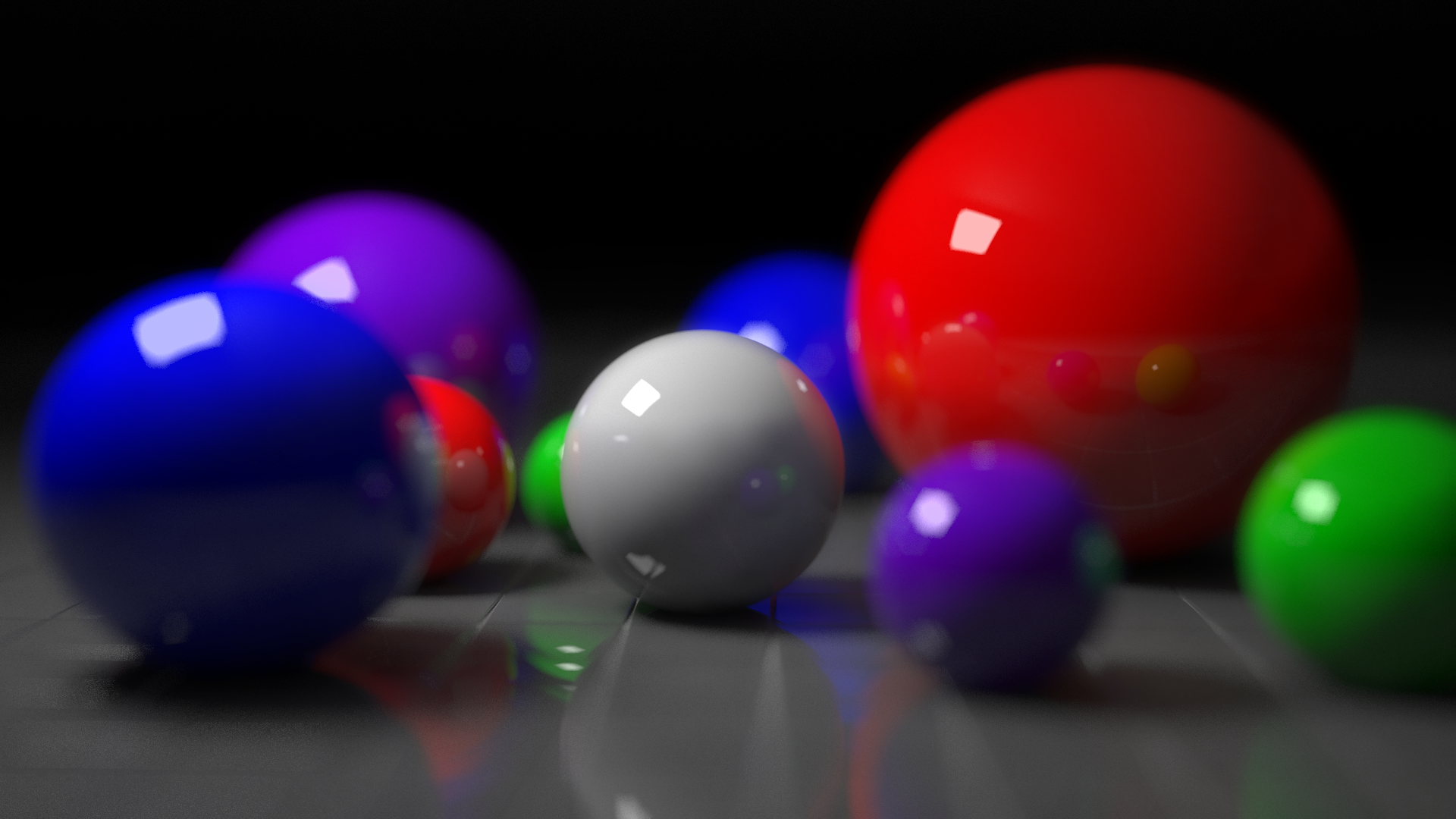 A render of a few spheres, created in Rhinoceros 3D and rendered using V-Ray. This render features: Depth of field, hexagonal aperture (and consequently hexagonal bokeh), fresnel reflections, area lights, global illumination, diffuse interreflection, ambient occlusion etc.